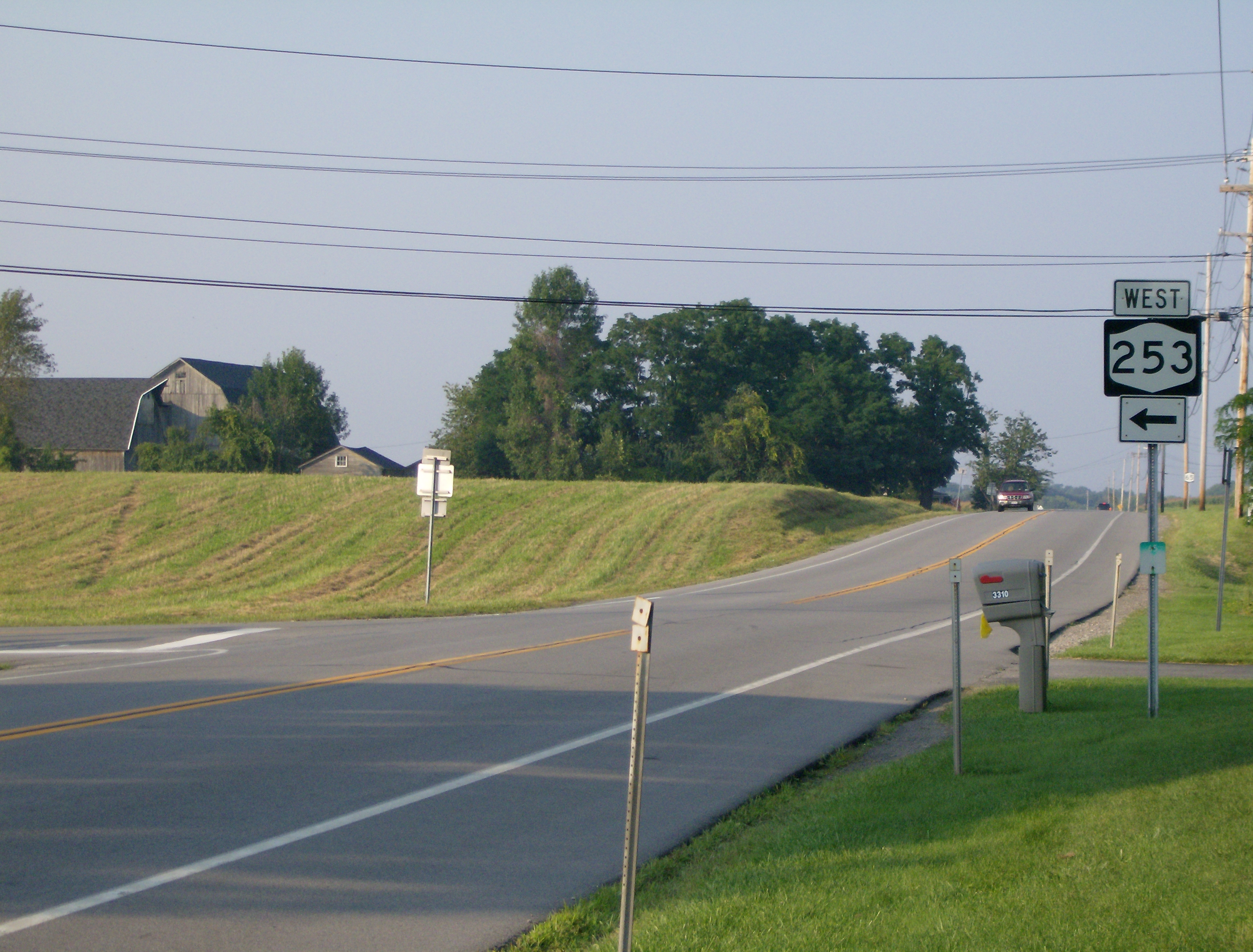 The eastern terminus of New York State Route 253 as seen from New York State Route 65 northbound. Until the 1980s, NY 253 continued north on NY 65 (into the background) on its way to an eventual terminus at New York State Route 441 in Penfield.